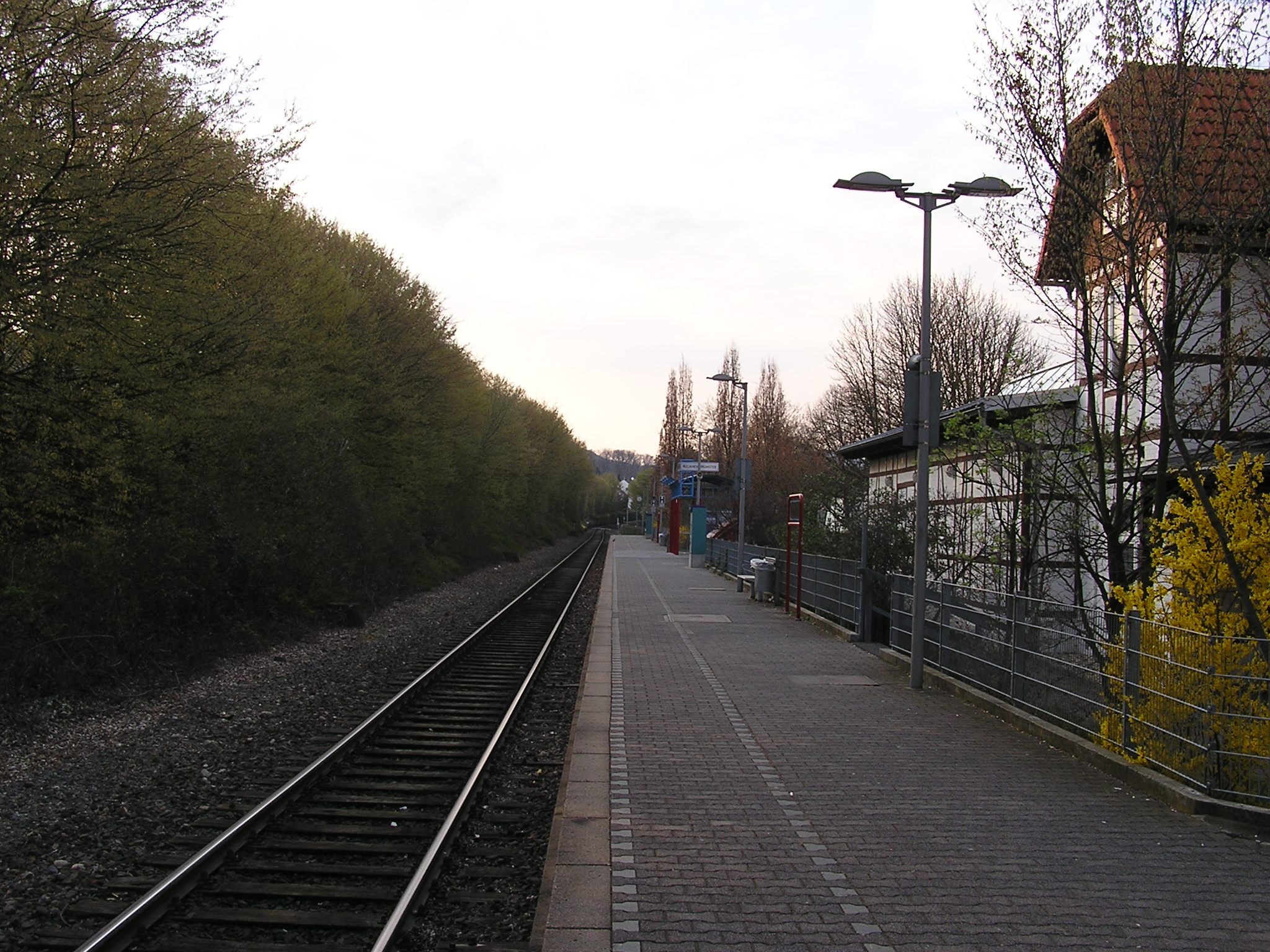 Stop Kelkheim-Münster at the Königsteiner Bahn